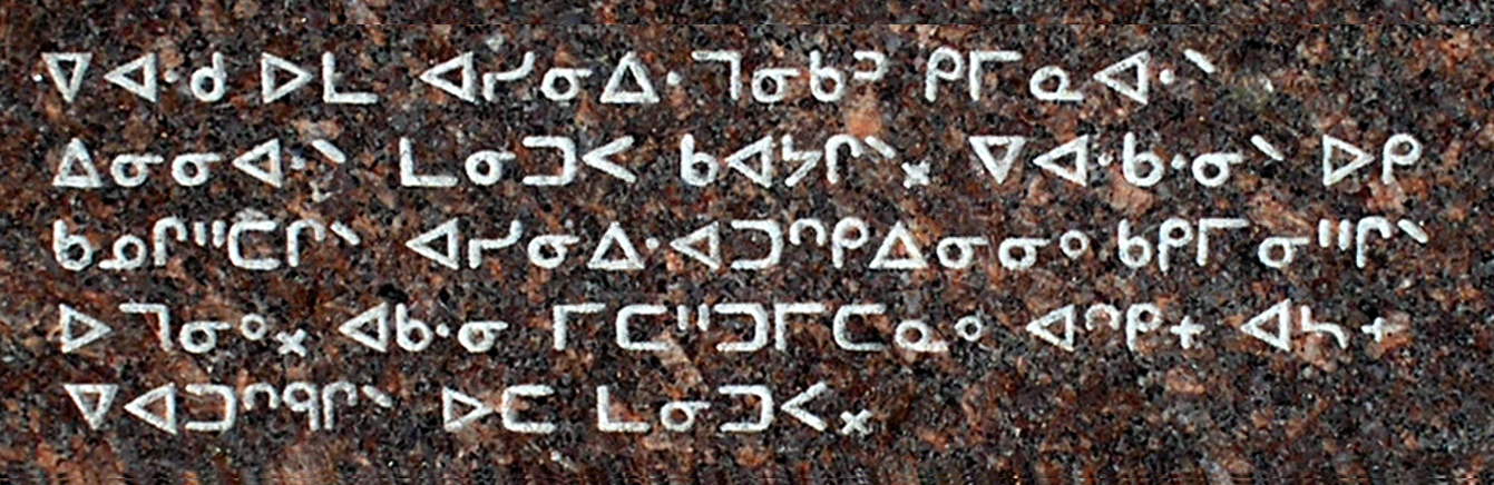 Plains Cree inscription on display at The Forks, Winnipeg, Manitoba, Canada. Photo taken 3 September 2005.